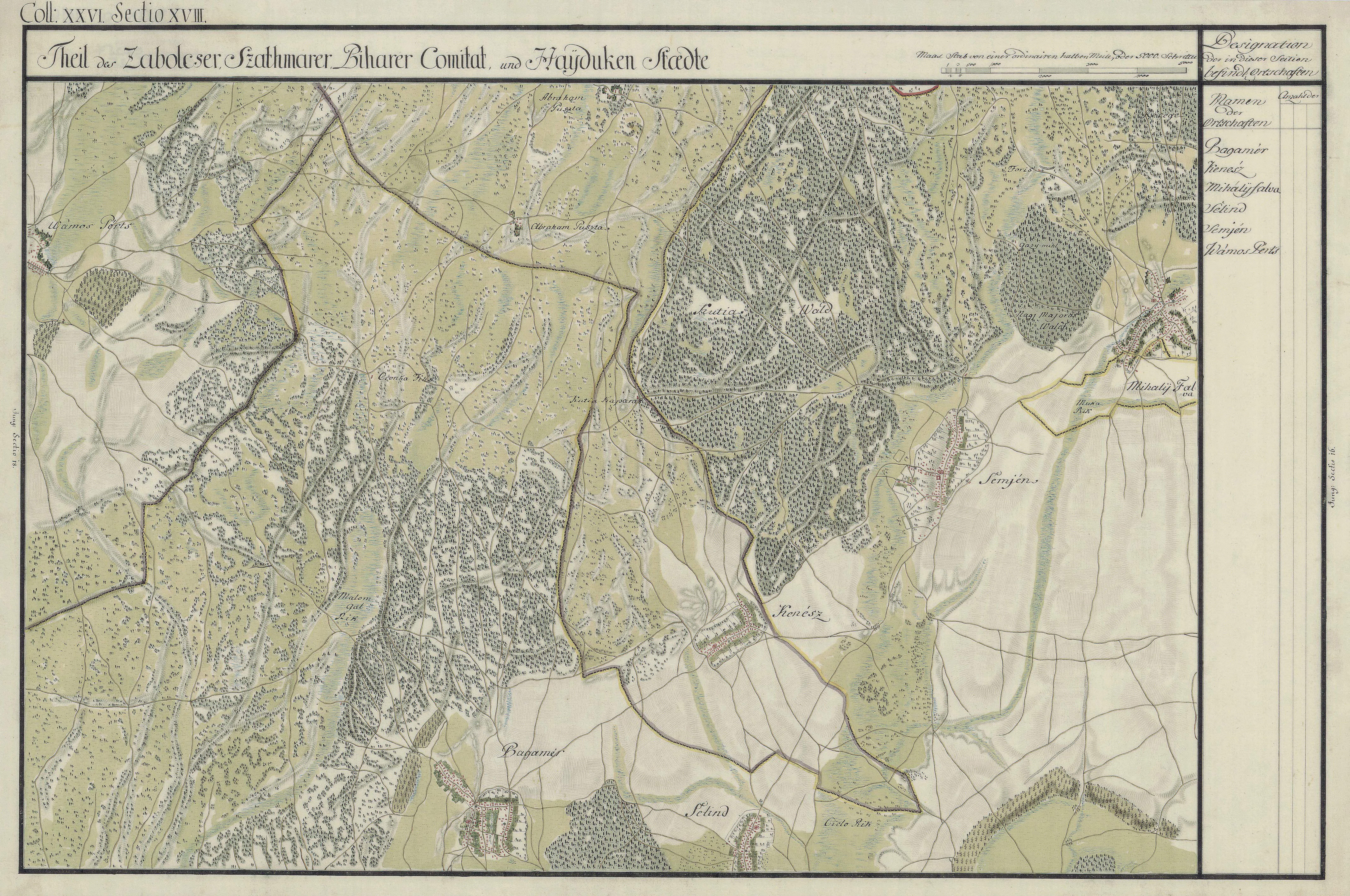 Bihor County, 1782-85. Josephinische Landesaufnahme pg.26-18